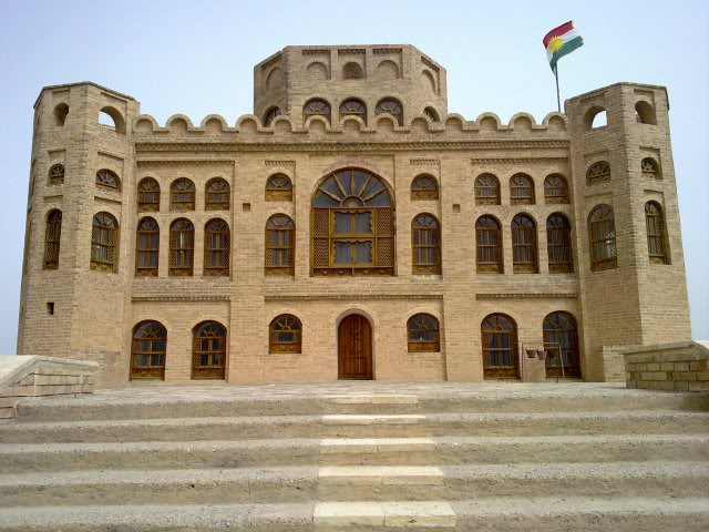 Sherwana Castle built by Mohamed Pasha Jaff